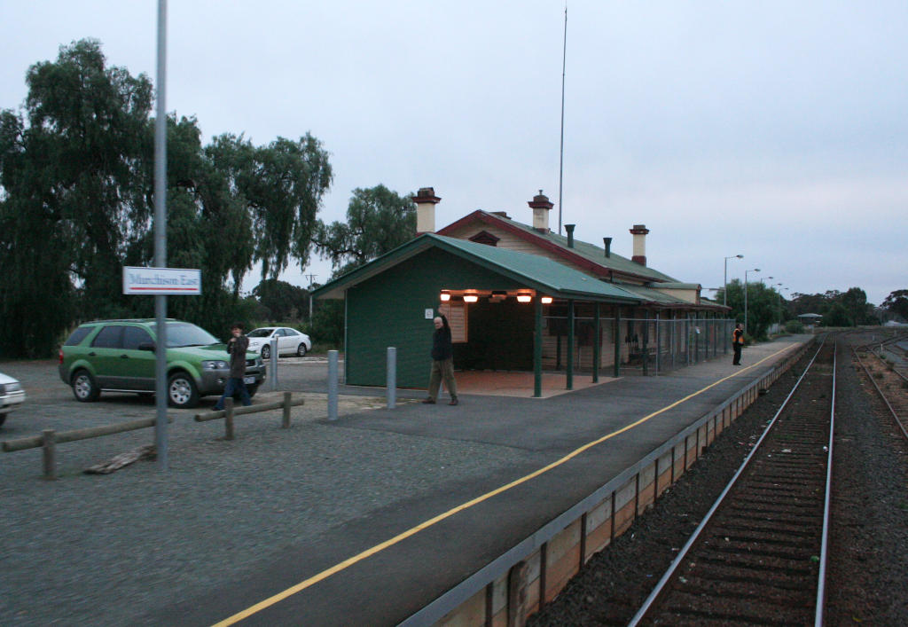 Murchison East railway station, Victoria passenger shelter